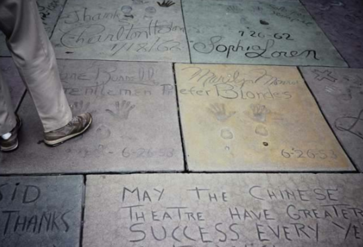 Foot prints at the Chinese Theater.